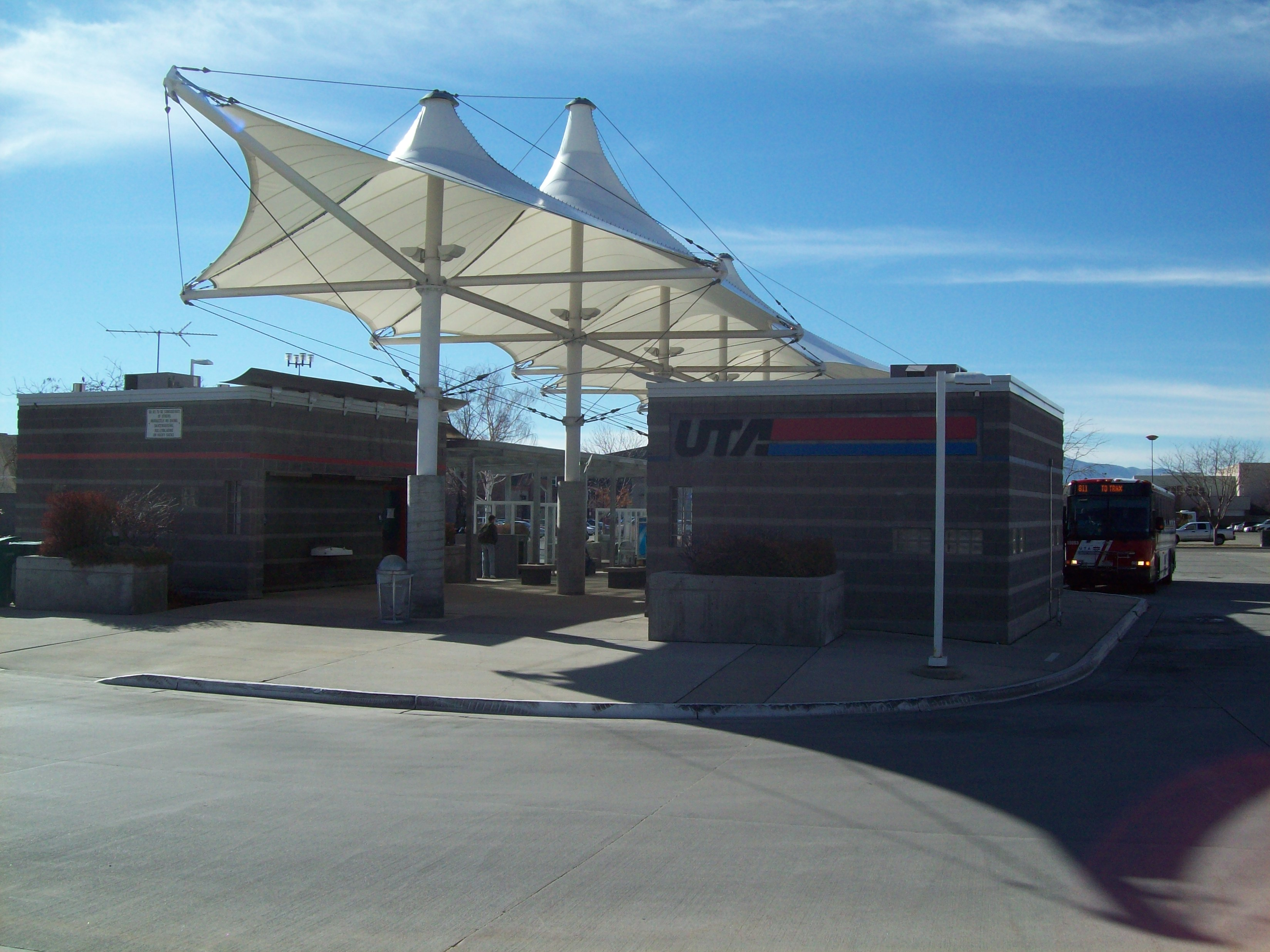 Looking west towards the east side of the Mount Timpanogos Transit Center